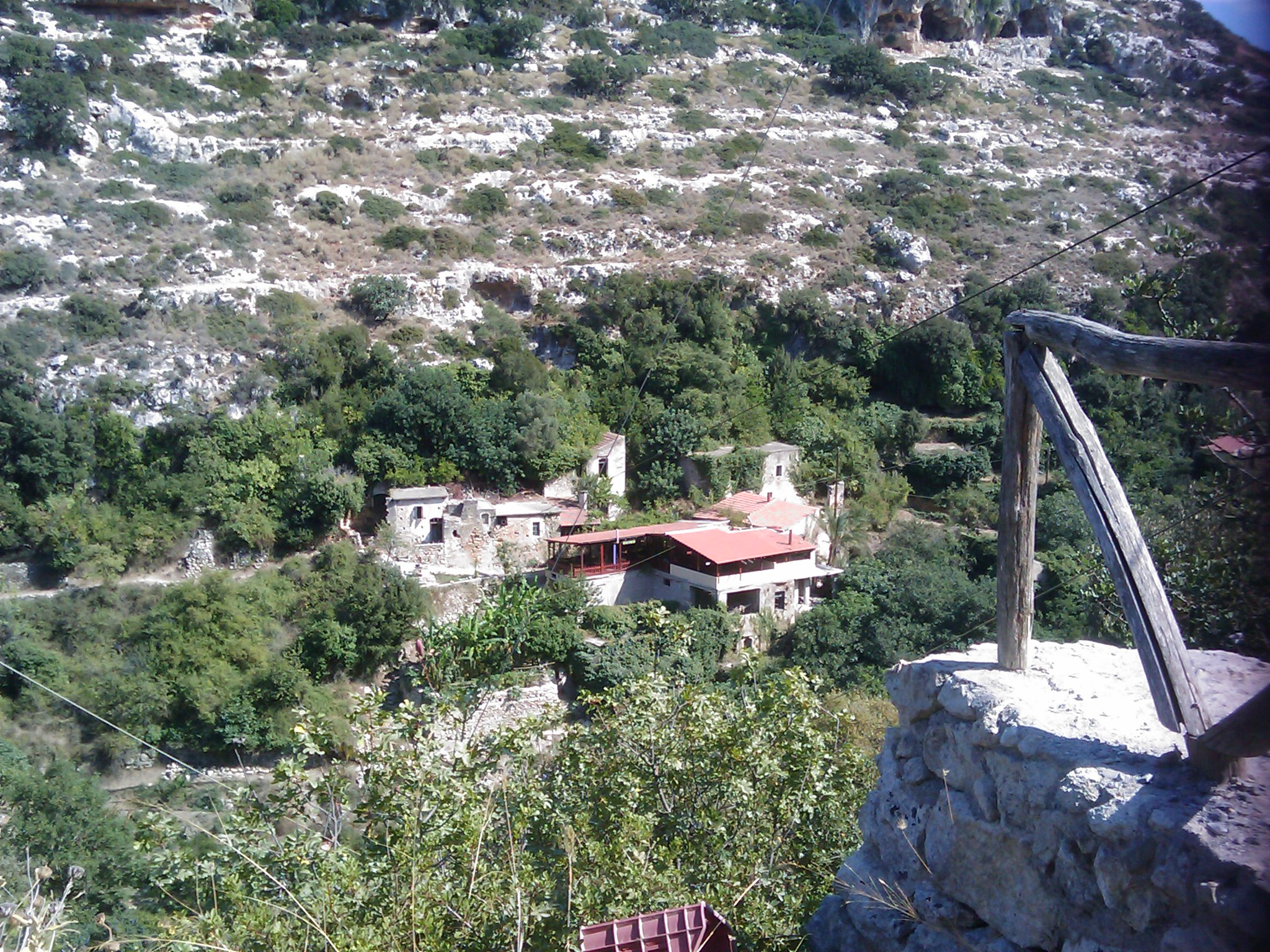 Taverna at the beginning of the myli-gorge, connected to the road by a goods-cableway.